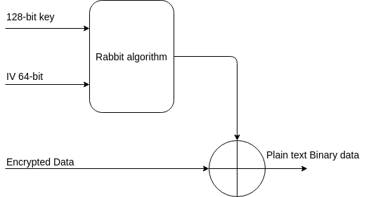 Rabbit decryption